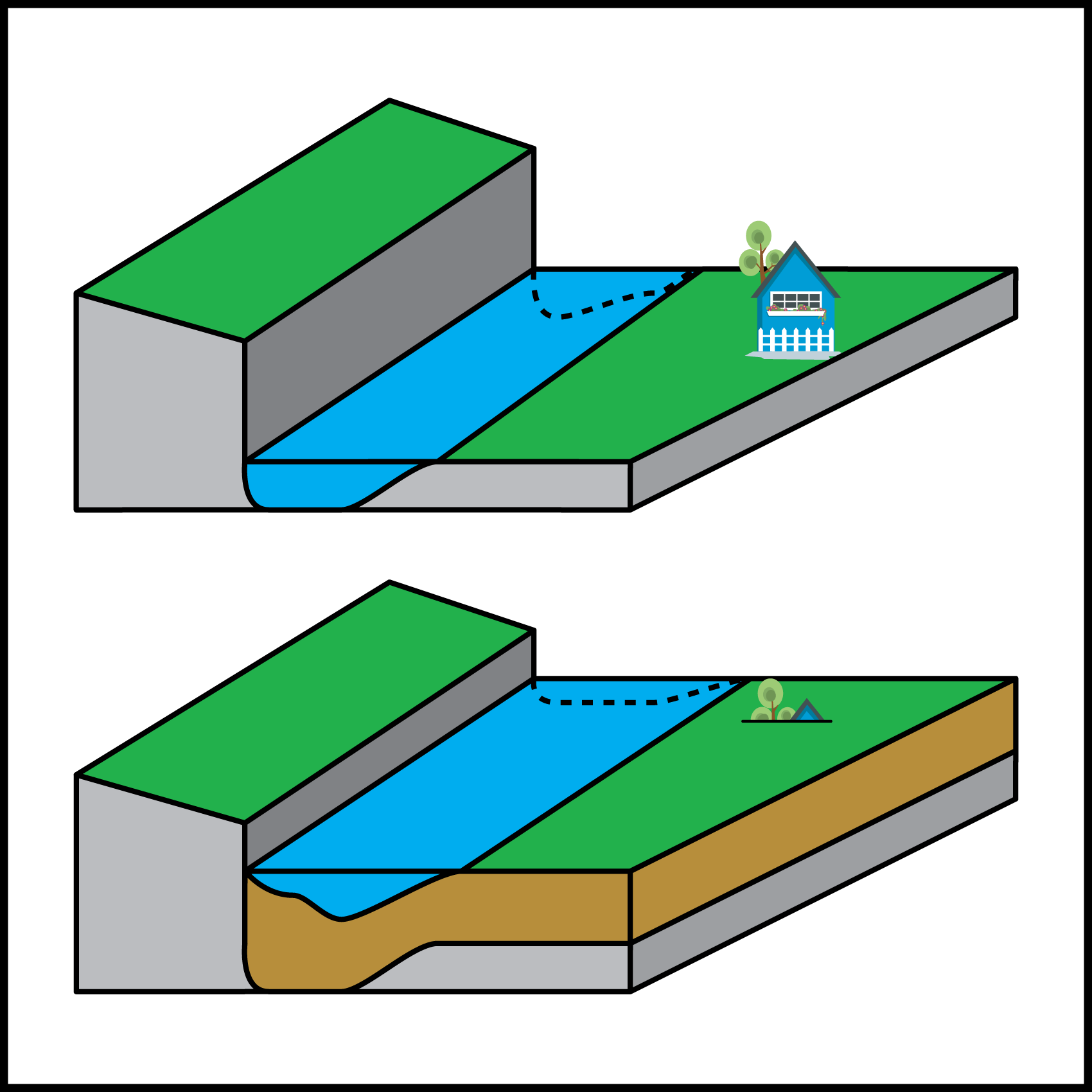 This diagram shows the result of sediment accumulating in a stream (aggradation).